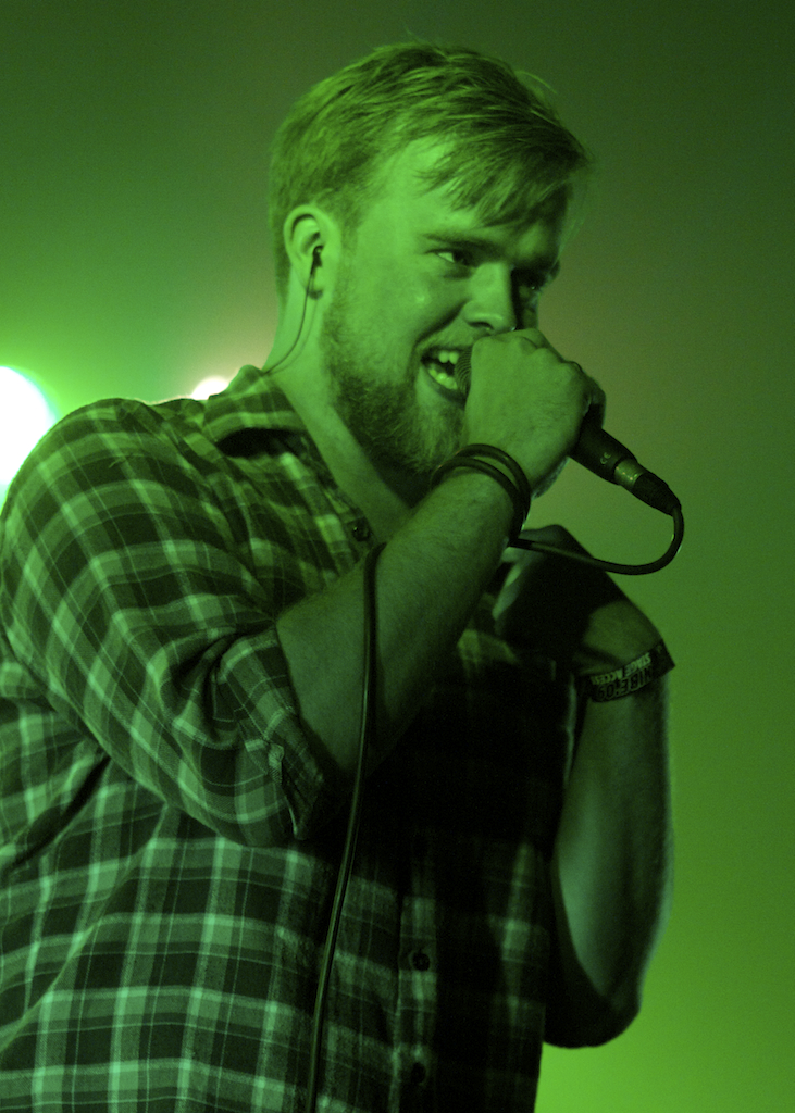 Troels Abrahamsen, leadsinger of the danish band Veto.